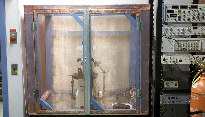 A home-made Faraday cage at the University of Arizona in Dr. Michael Heien's Lab